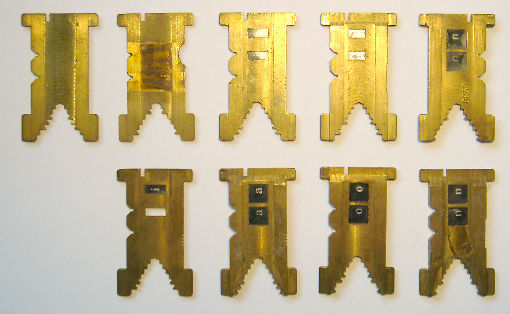 Frontal view of different Intertype-Fotomatic Fotomats